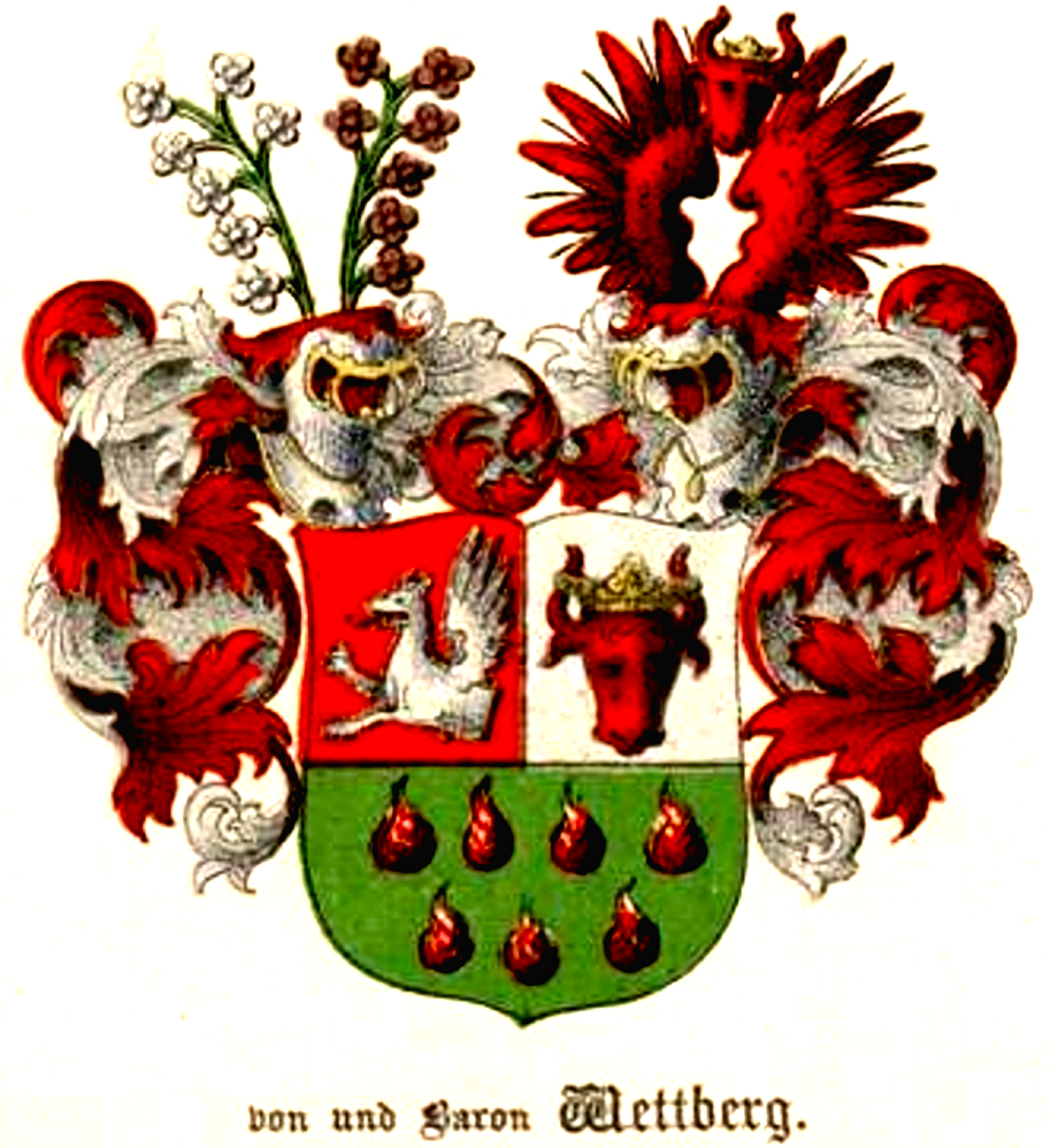 Coat of arms of Baron Wettberg family